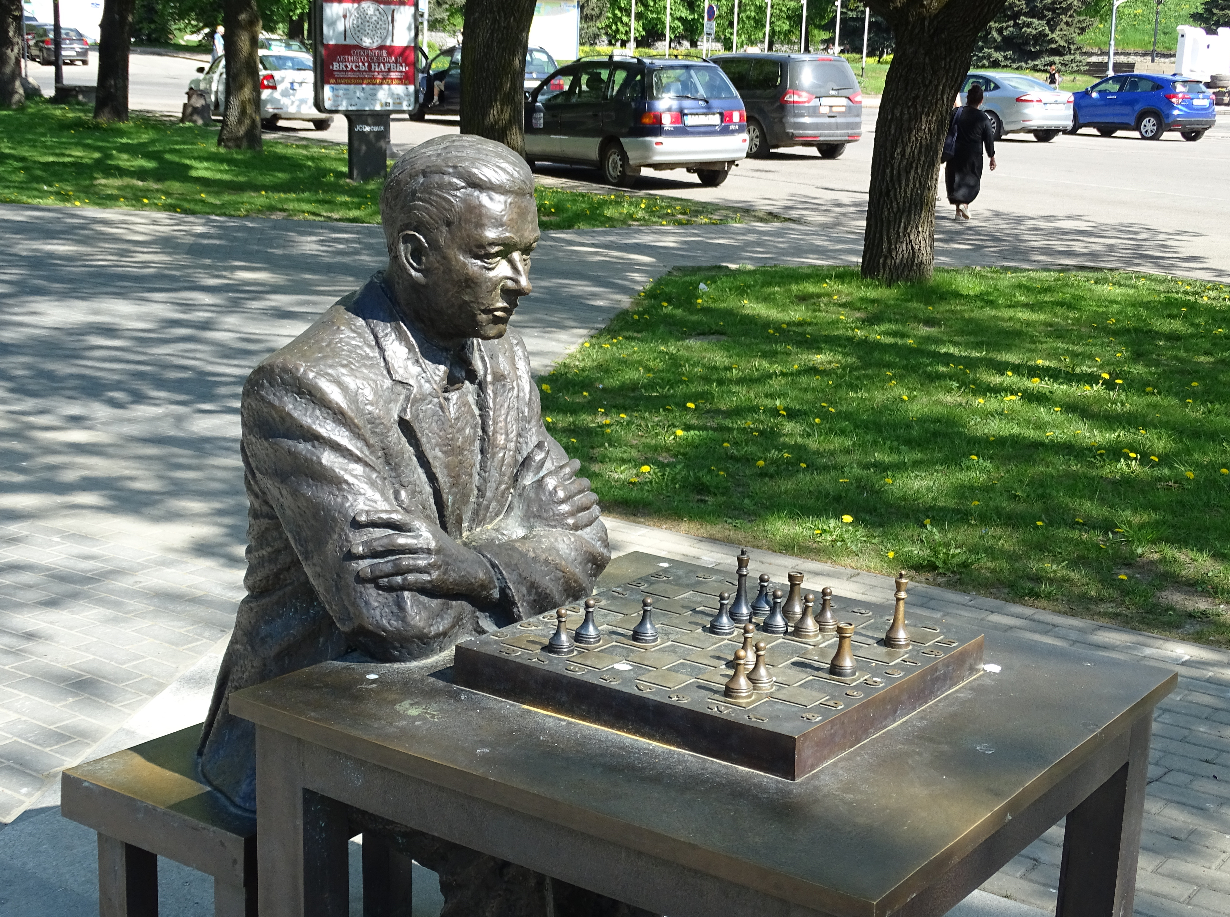 Monument in honour of the Narva born Estonian chess player Paul Keres (January 7, 1916 – June 5, 1975).